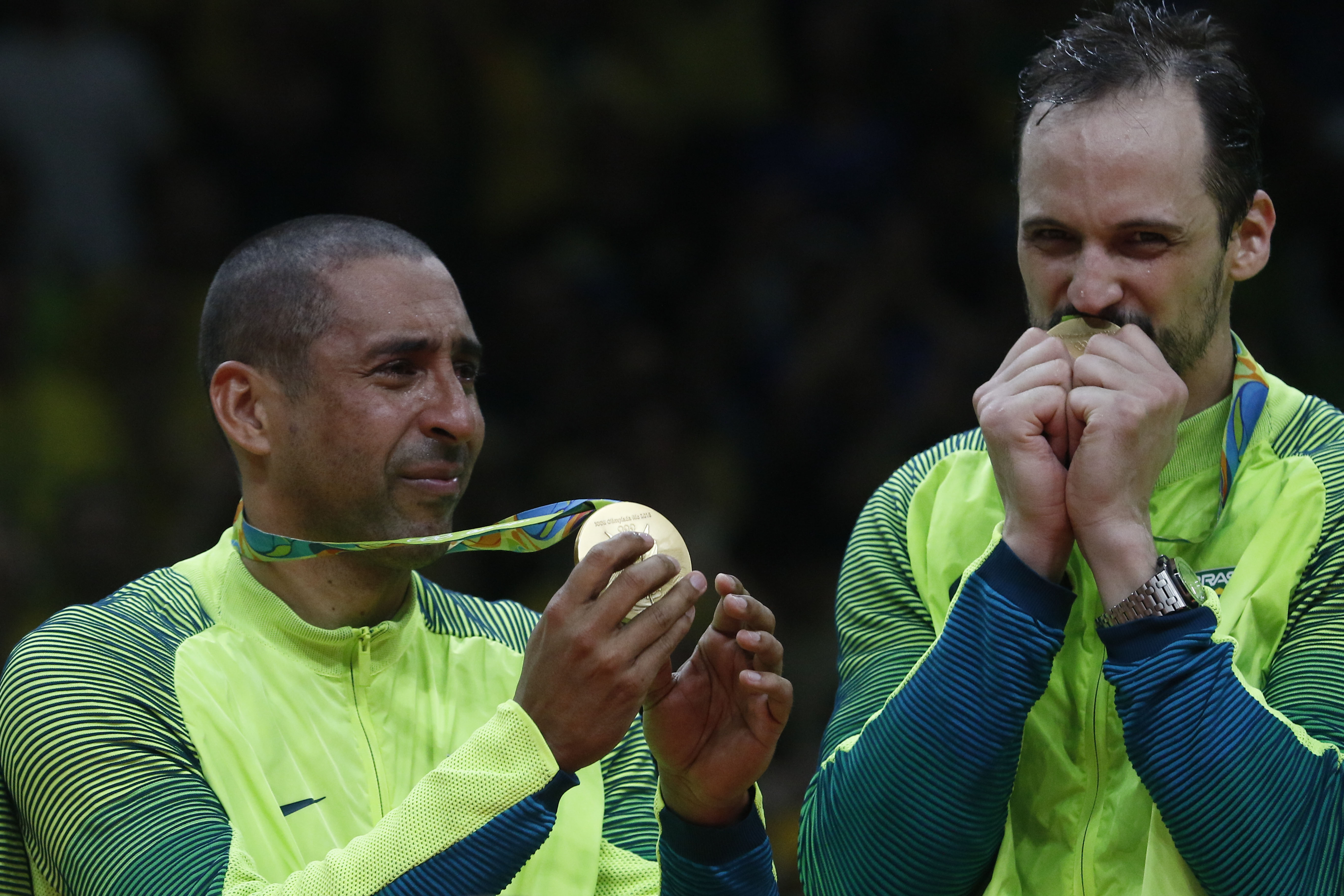 Rio de Janeiro - Seleção brasileira de vôlei ganha medalha de ouro ao vencer a Itália na final dos Jogos Olímpicos Rio 2016 no Maracanãzinho (Fernando Frazão/Agência Brasil)